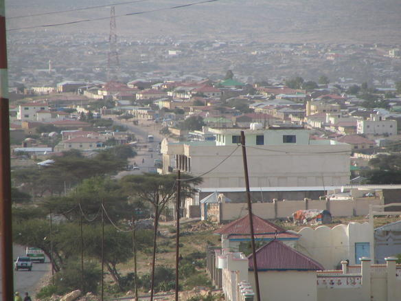 City of Hargeisa